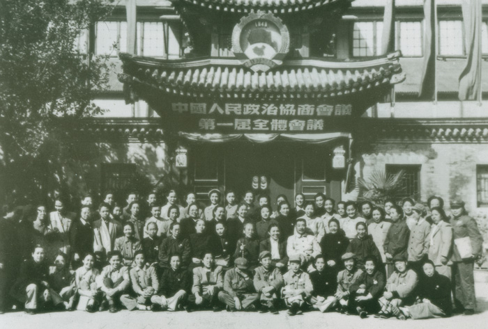 Soong Ching-ling and other female members at Chinese First People's Political Consultative Conference